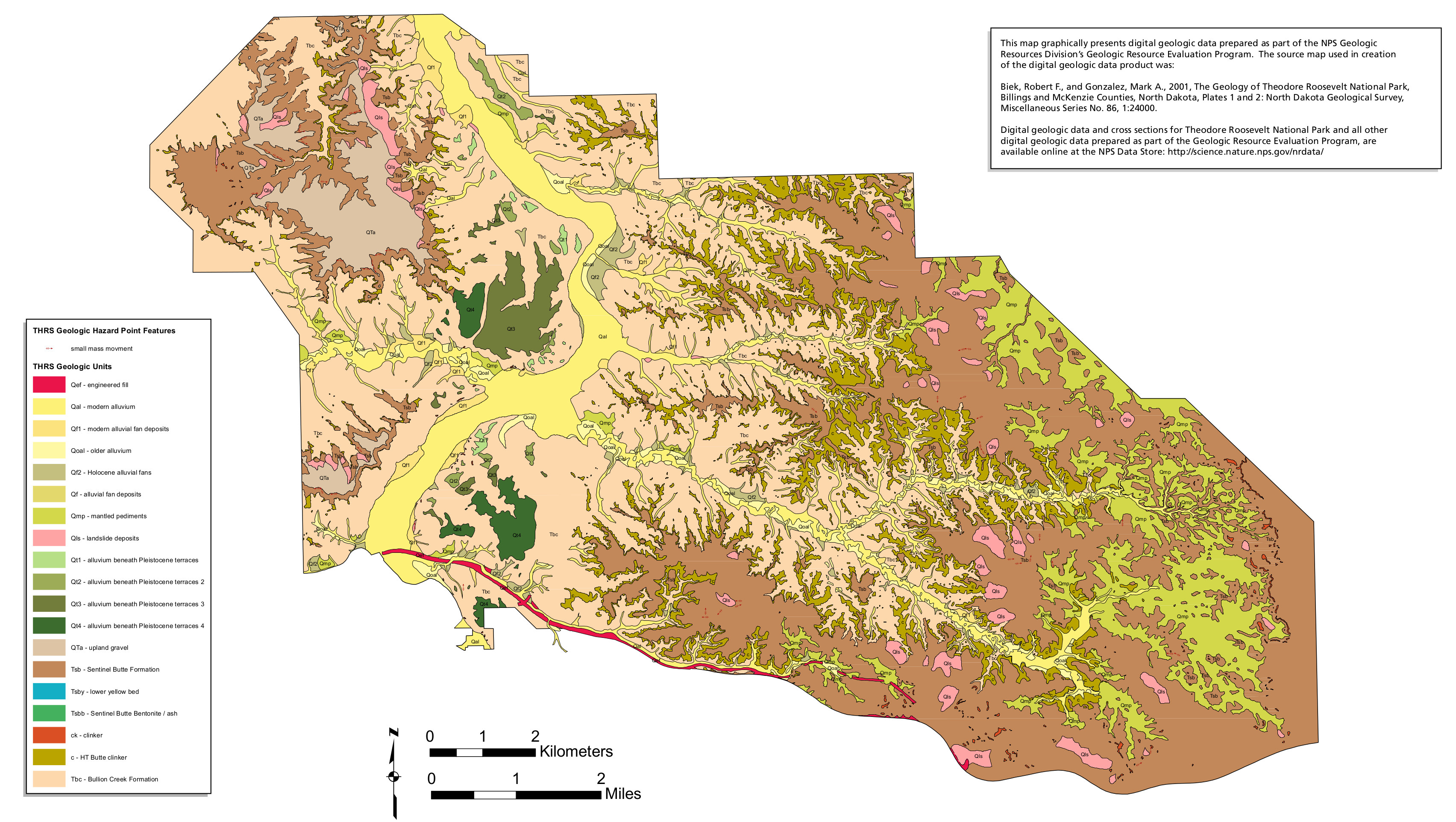 The Theodore Roosevelt geologic map of the south unit focuses on the most visited area of the park near the Medora Visitor Center and along I-94.